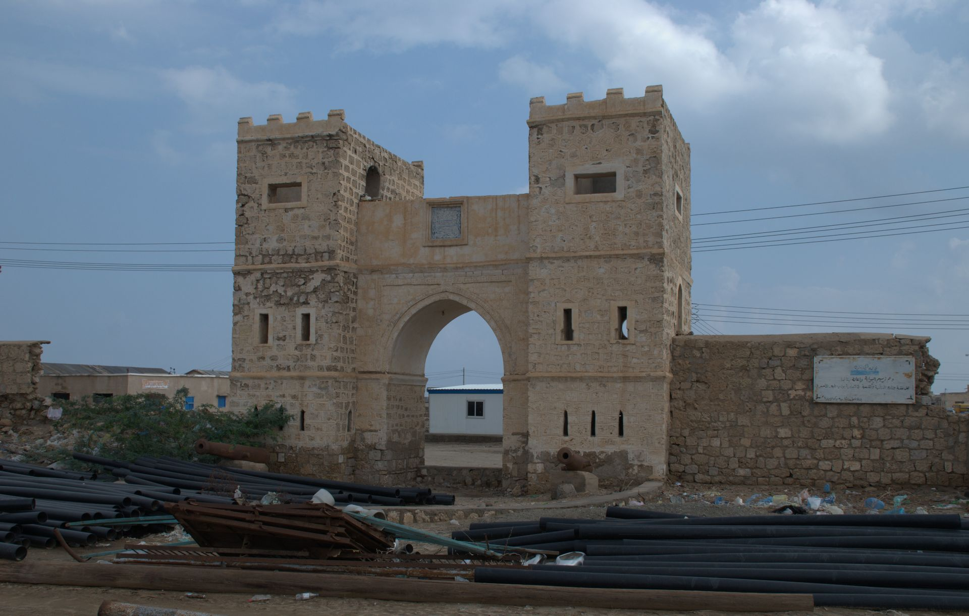 Kitcheners Gate, city gate on mainland - Suakin, Sudan.